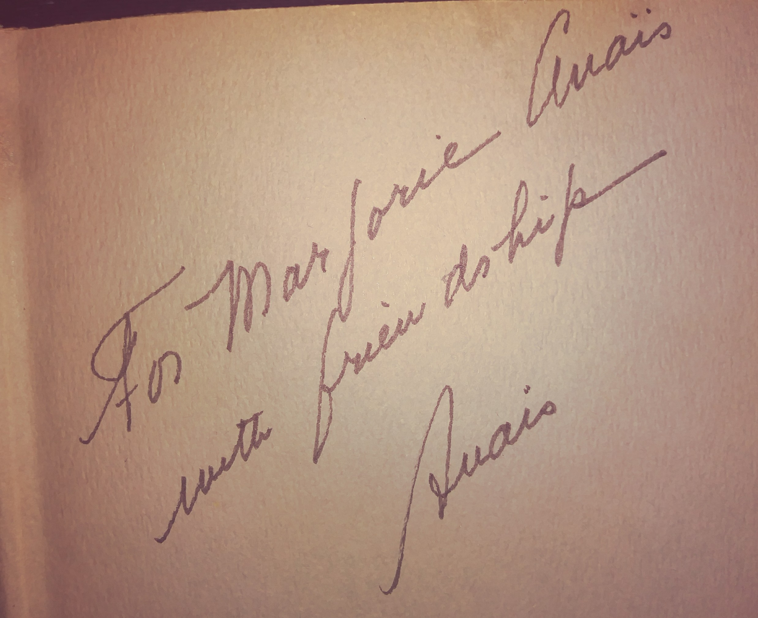 Inscription in a first edition of "Diary of Anaïs Nin 1931-1934" from Anaïs Nin to Marjorie Anaïs Housepian Dobkin: "To Marjorie Anaïs with friendship Anaïs"